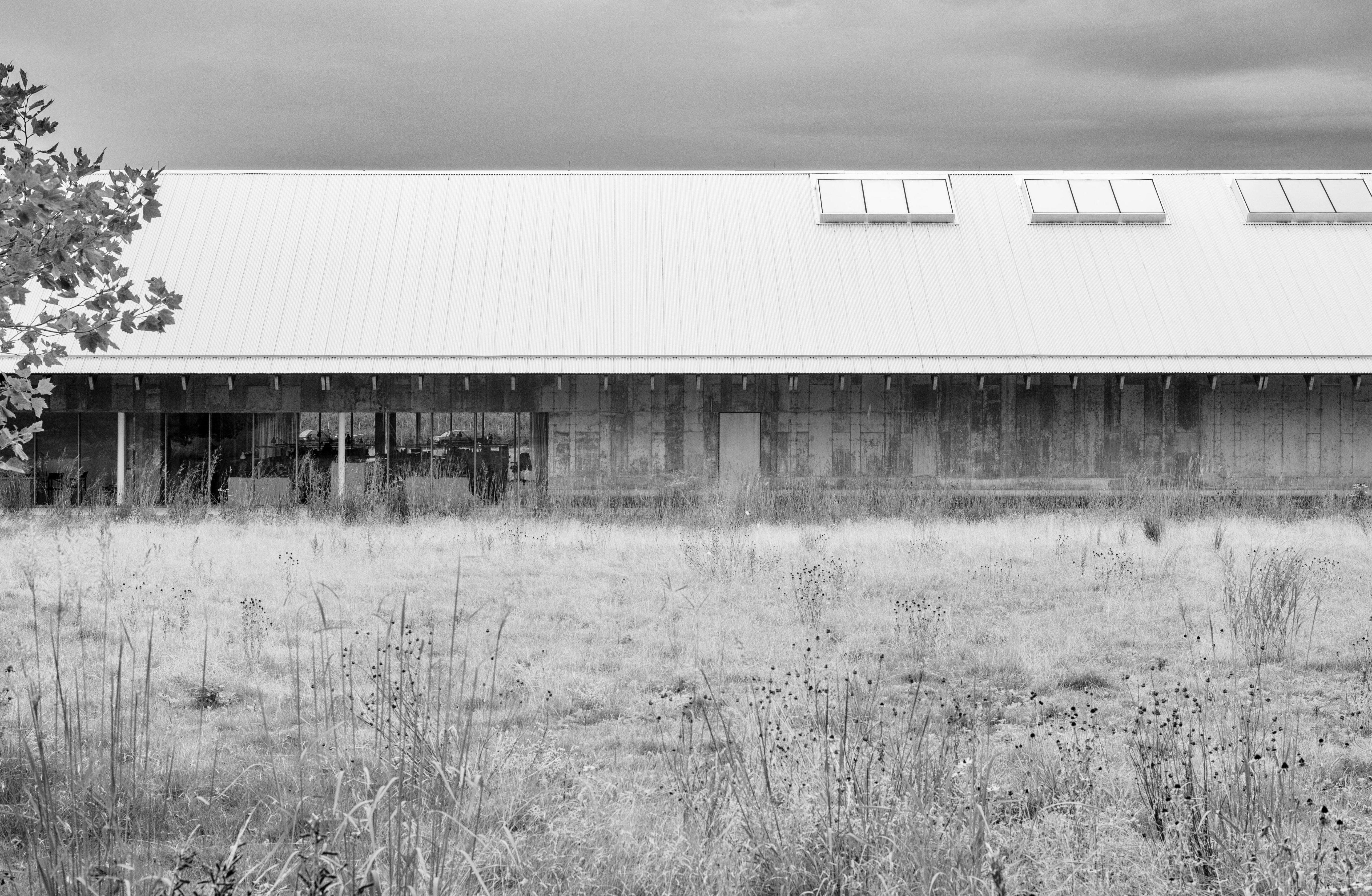 August 15, 2017